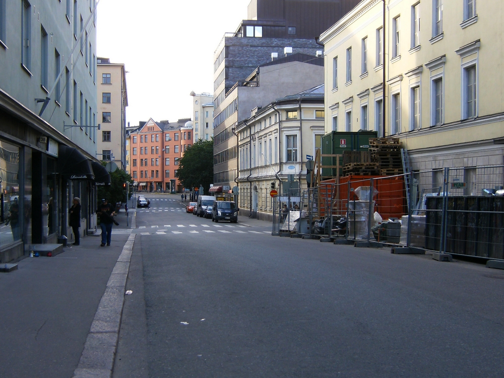 The north-western section of the street Albertinkatu in Helsinki, Finland